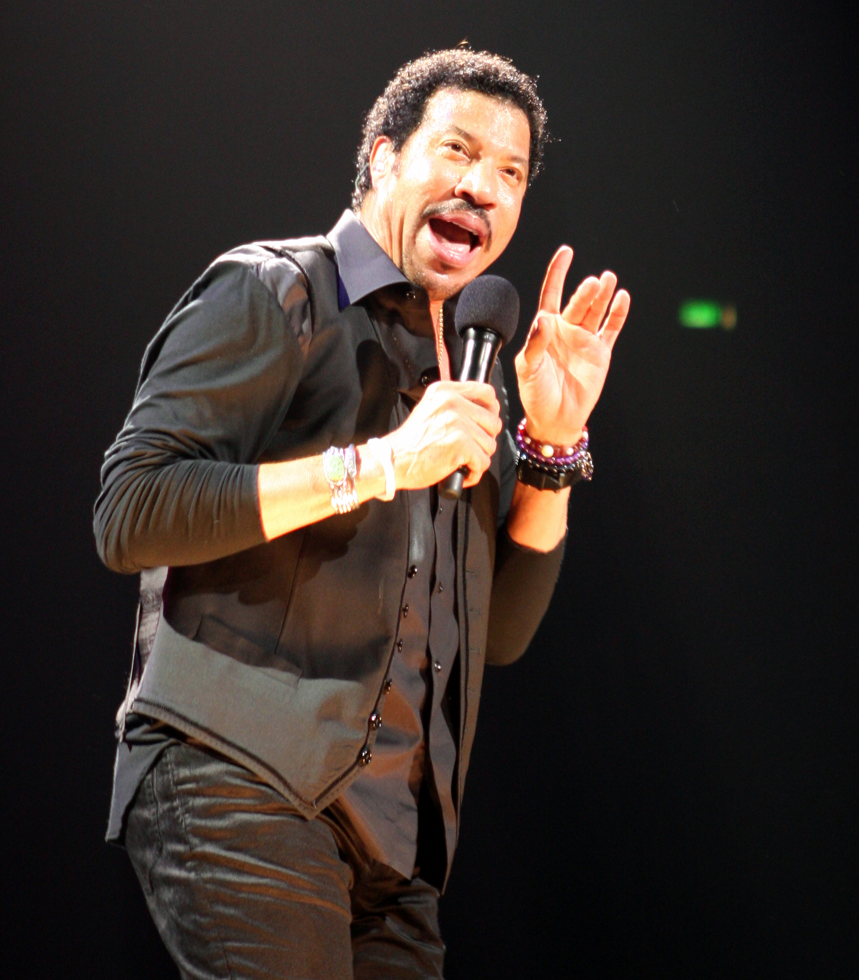 Lionel Richie at the Lionel Ritchie Live Acer Arena featuring Guy Sebastian 2011.